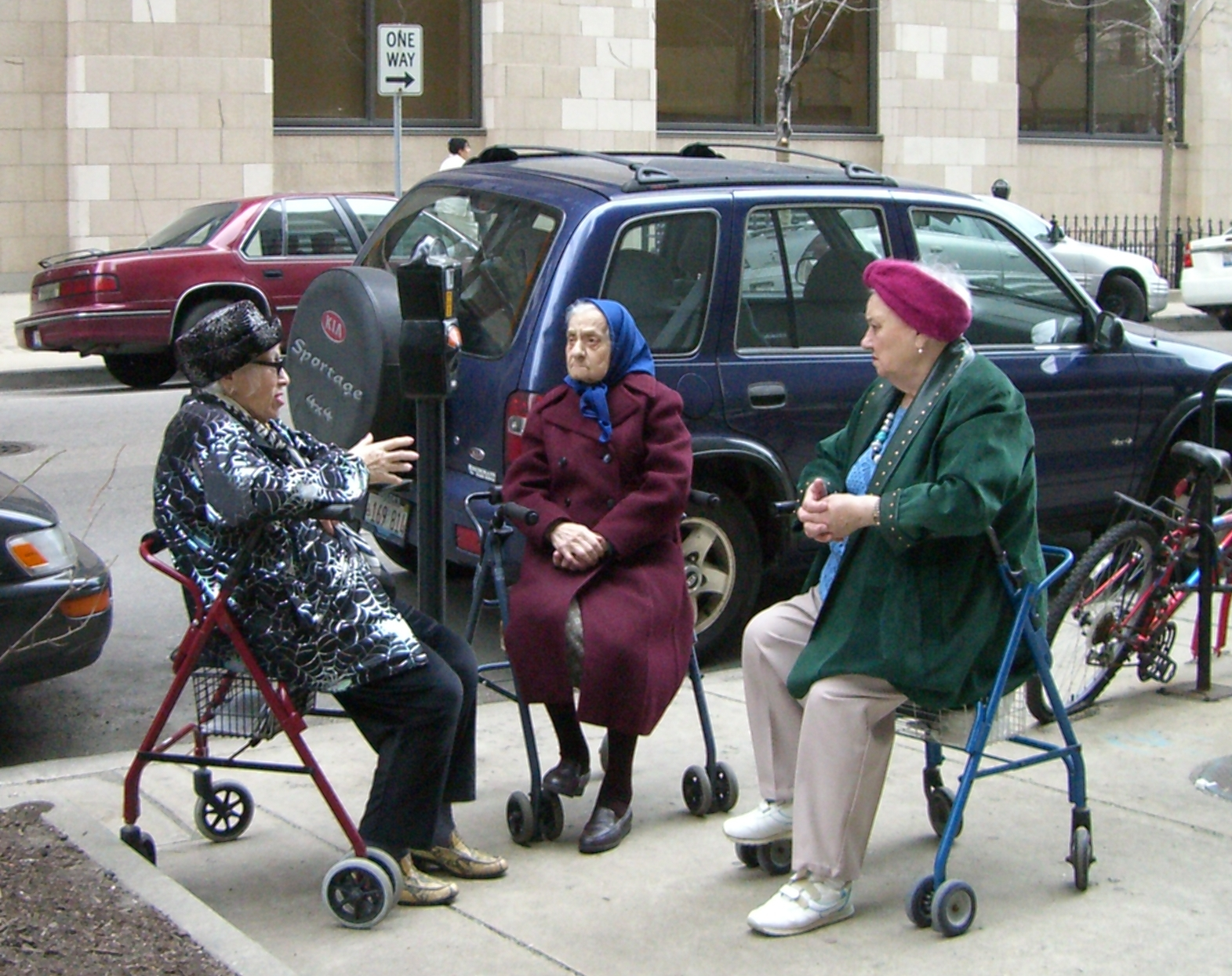 Photo of old ladies chatting in Chicago, Illinois, United States (on Erie between McClurg and Lakeshore Drive).Old Ladies